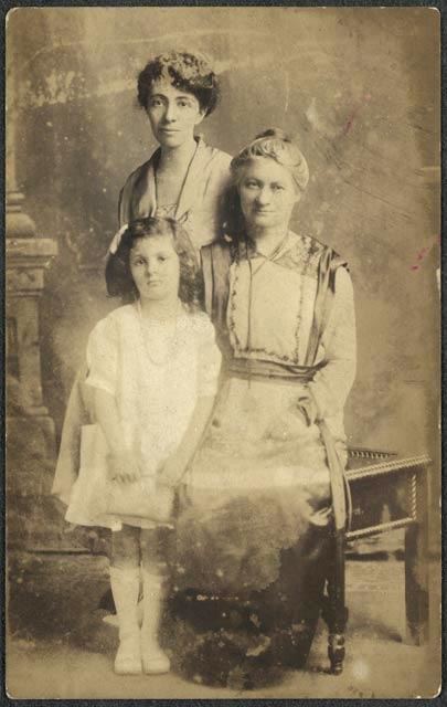 Hannah G. Solomon with her daughter, Helen S. Levy, and granddaughter, Frances Levy Angel. Photographic postcard created in Colorado Springs, Colorado; 1918.